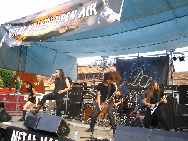 Dark Lunacy performing at Evolution Fest in Toscolano-Maderno, Italy.